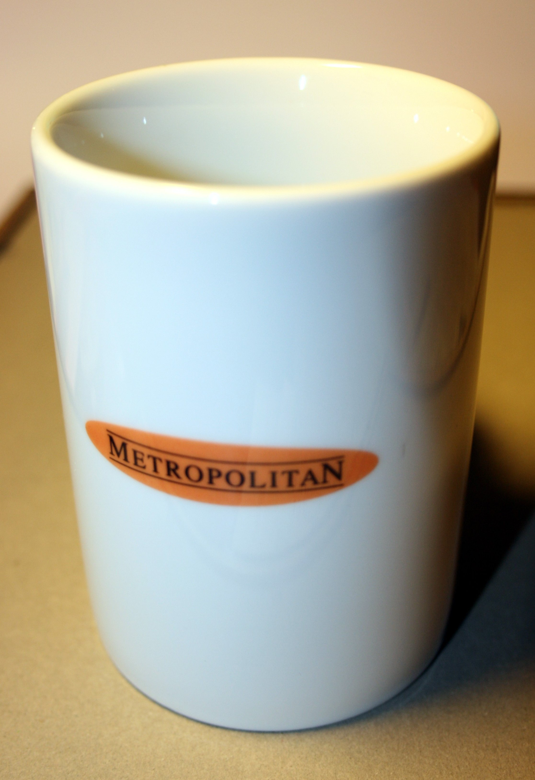 cup for coffee; marked with the logo of former german train "Metropolitan"